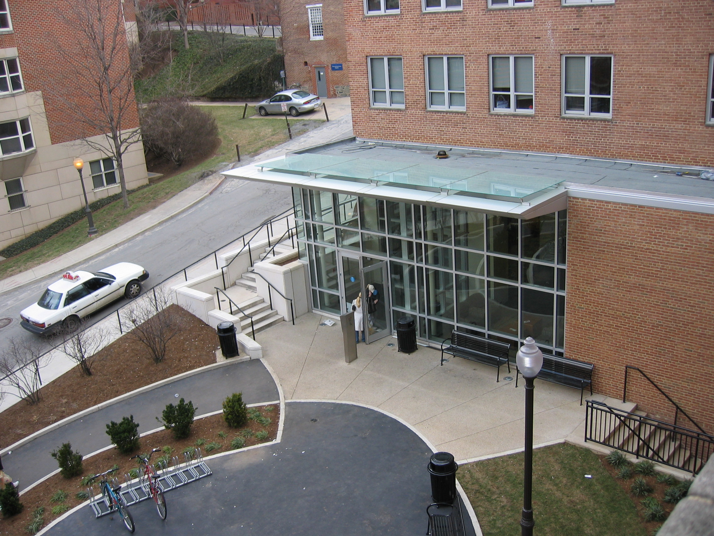 Entrance to New South Hall, a first year dormitory on the campus of Georgetown University